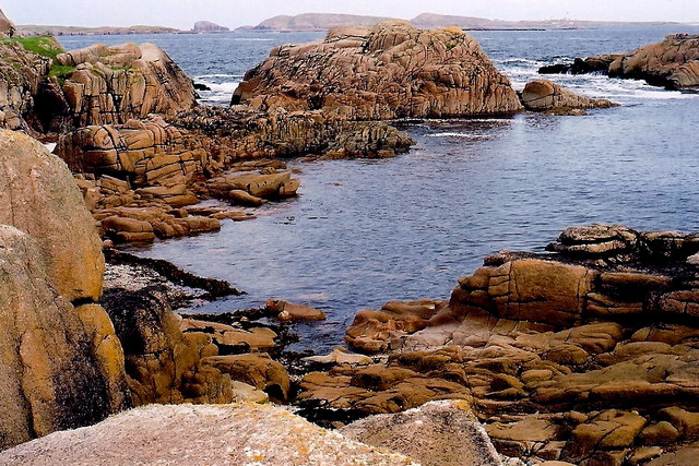 The Rosses - Inishfree Bay tidal pools